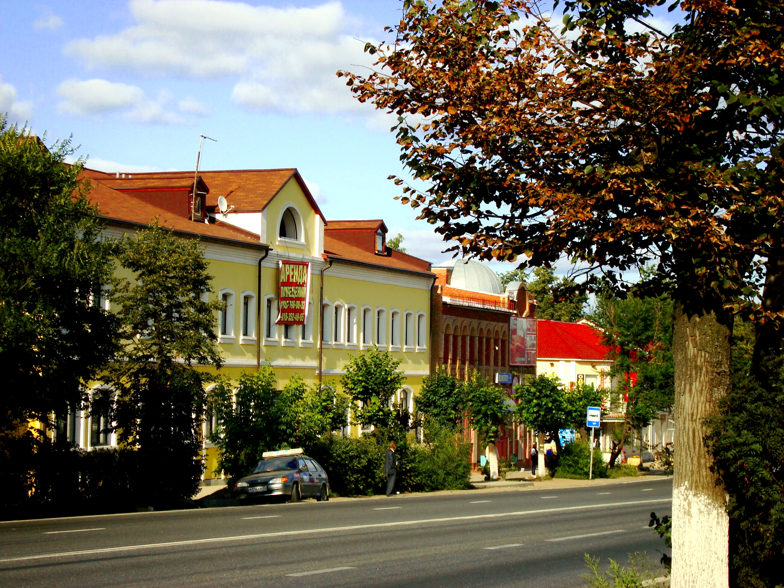 E22 / Lenin (former Moskovskaya) street in town Pokrov